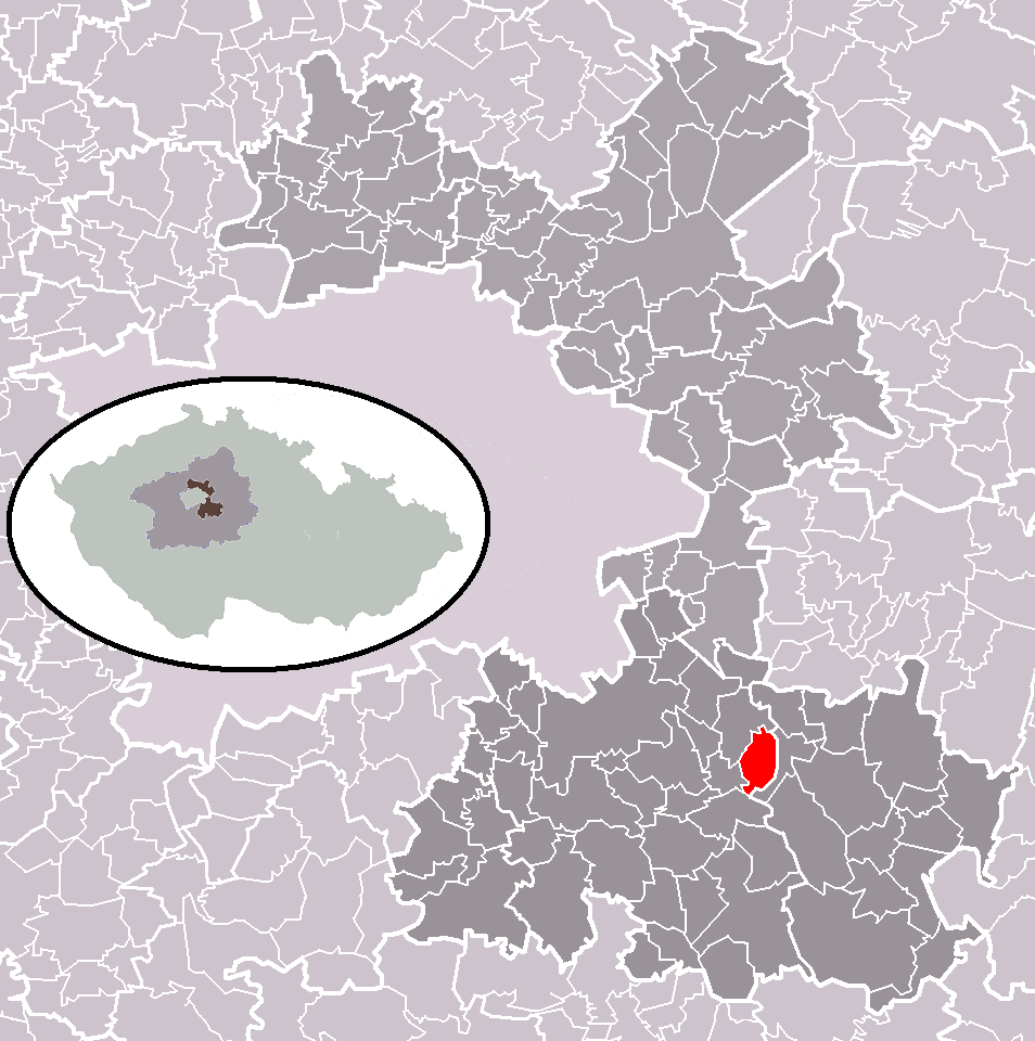 Location of Louňovice municipality within Prague-East District and administrative area of Říčany as a Municipality with Extended Competence.